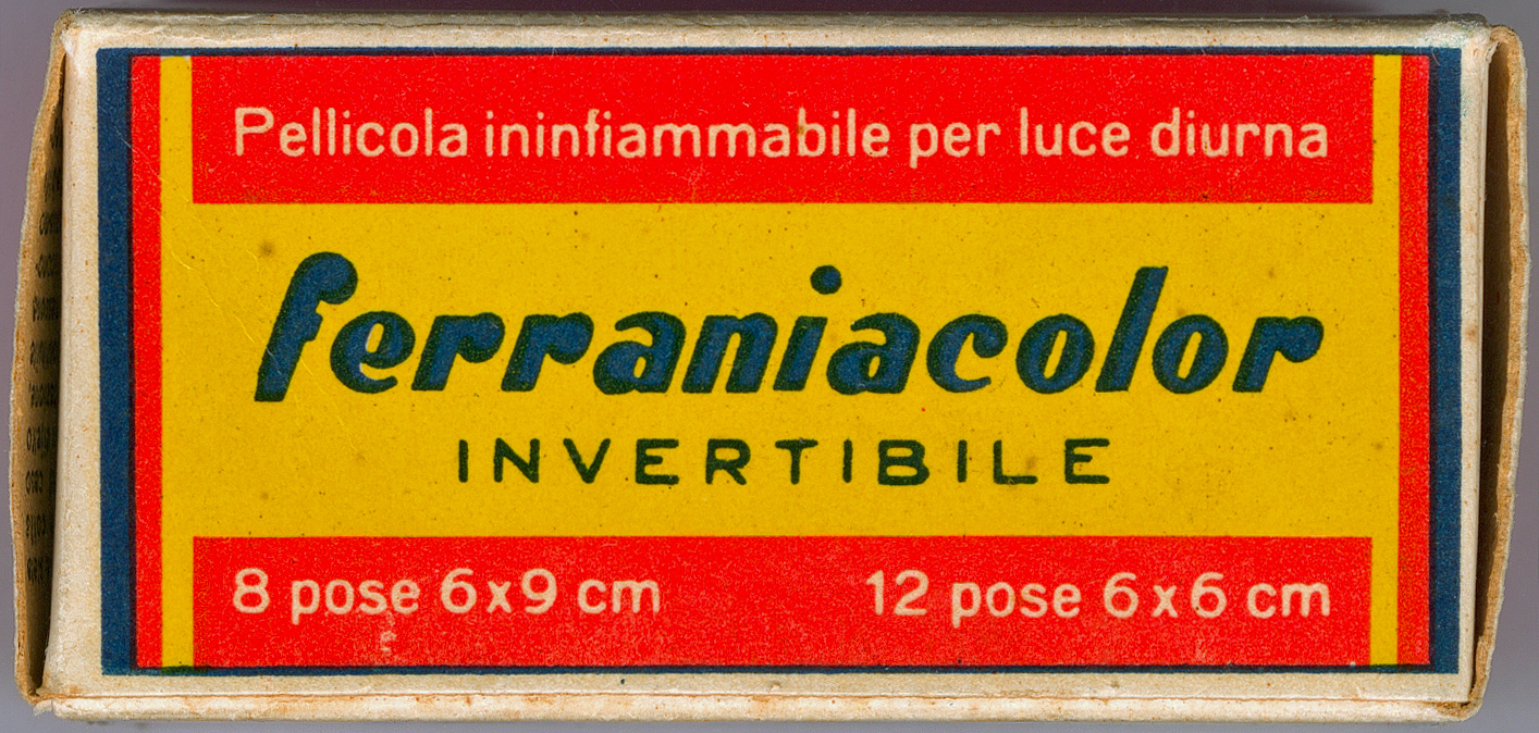 Film box of Ferraniacolor reversal film (type 120 roll film, produced by the Italian film manufacturing company Ferrania S.p.A.; expiry date of the film: July 1957)